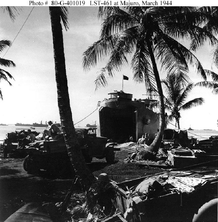 USS LST-461 beached at Majuro Atoll in March 1944. US National Archives photo # 80-G-401019, a US Navy photo now in the collection of the US National Archives